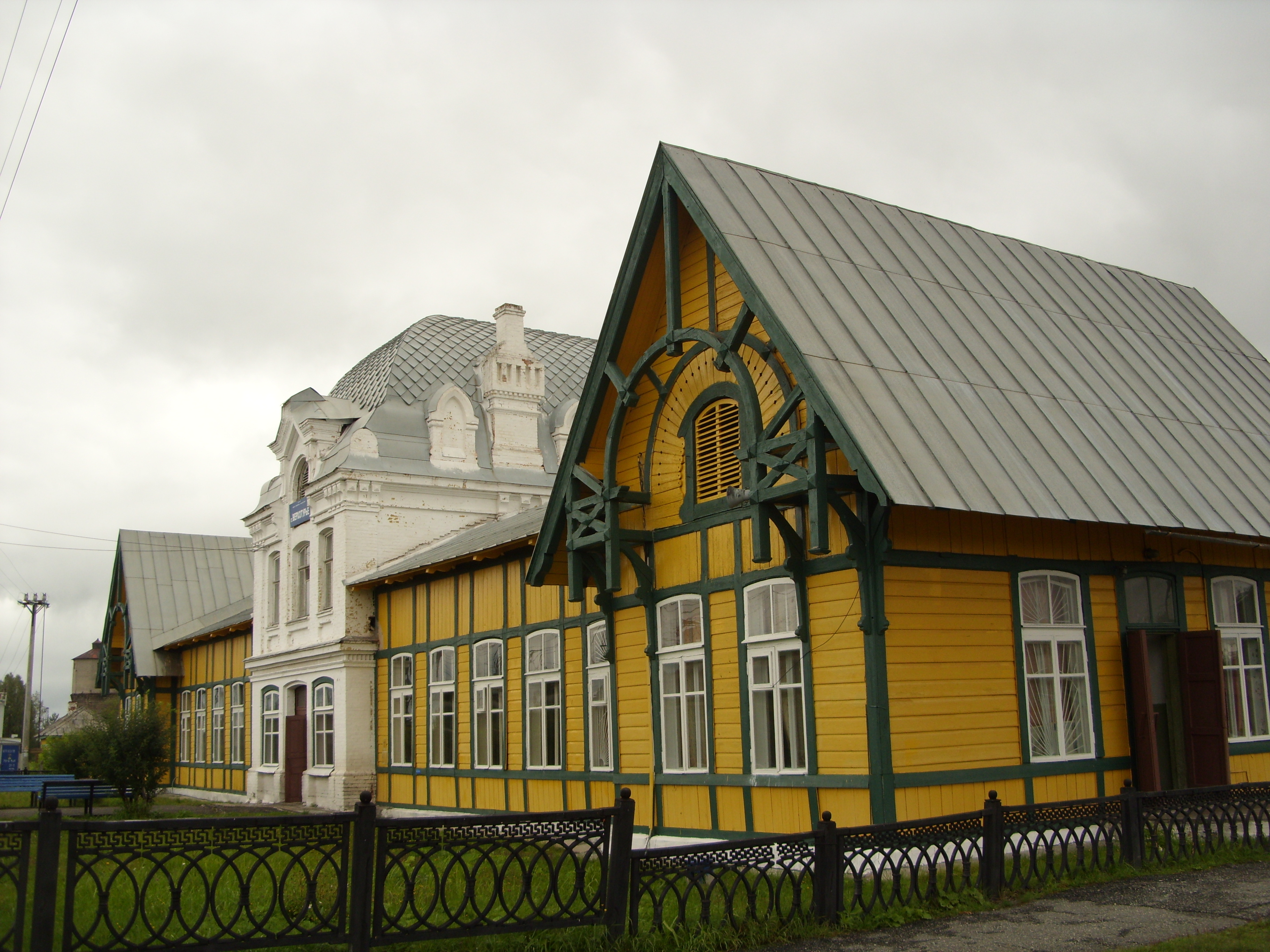 Verhotur'e Vokzal